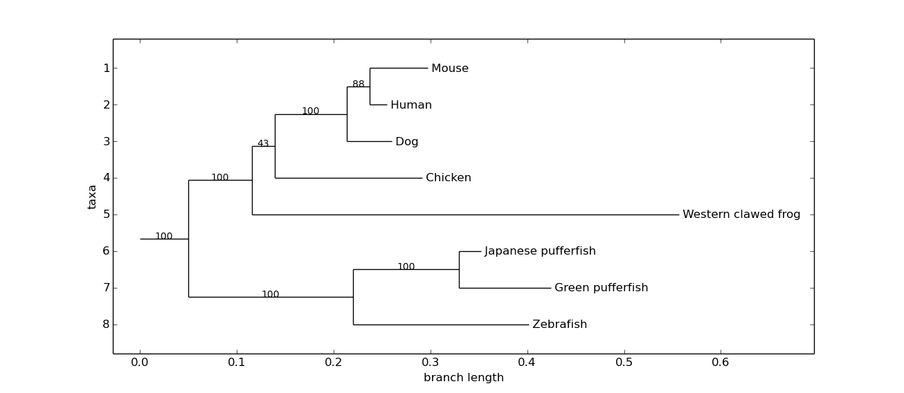 This graph is the output from the draw function in Biopython's Bio.Phylo module. The data came from the article 'Surprising complexity of the ancestral apoptosis network' by Zmasek et al.